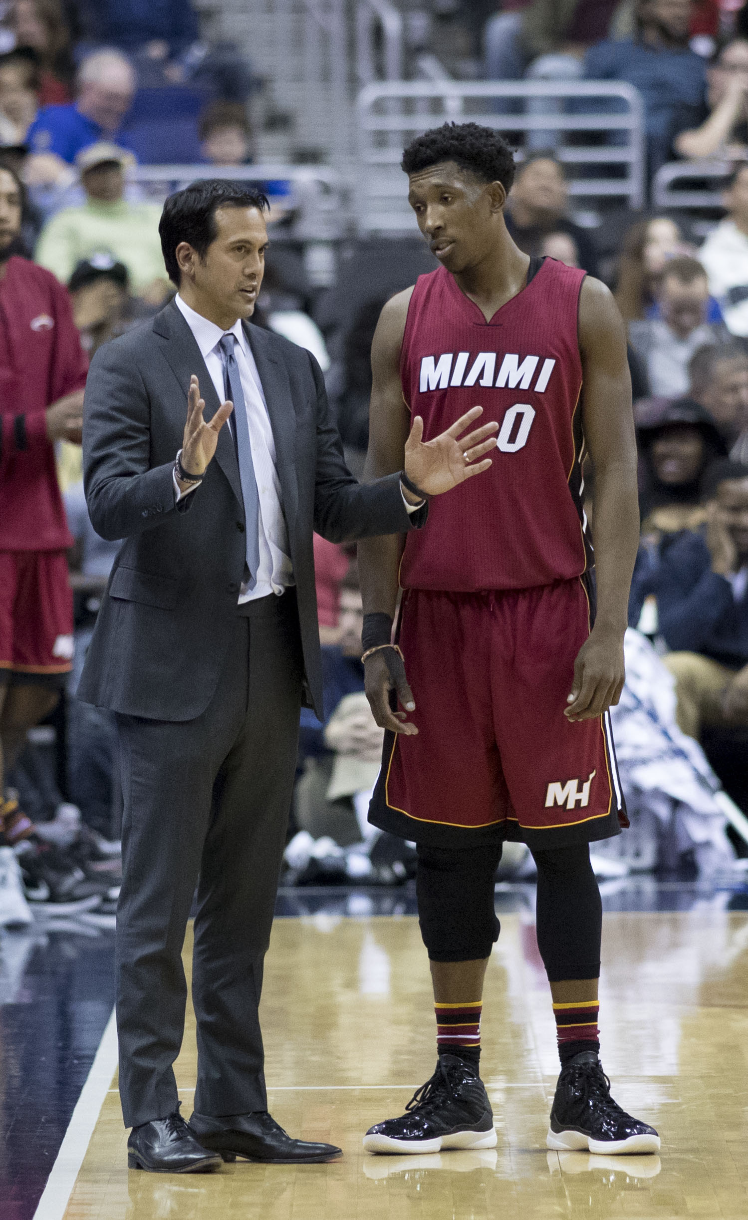 Heat at Wizards 11/19/16